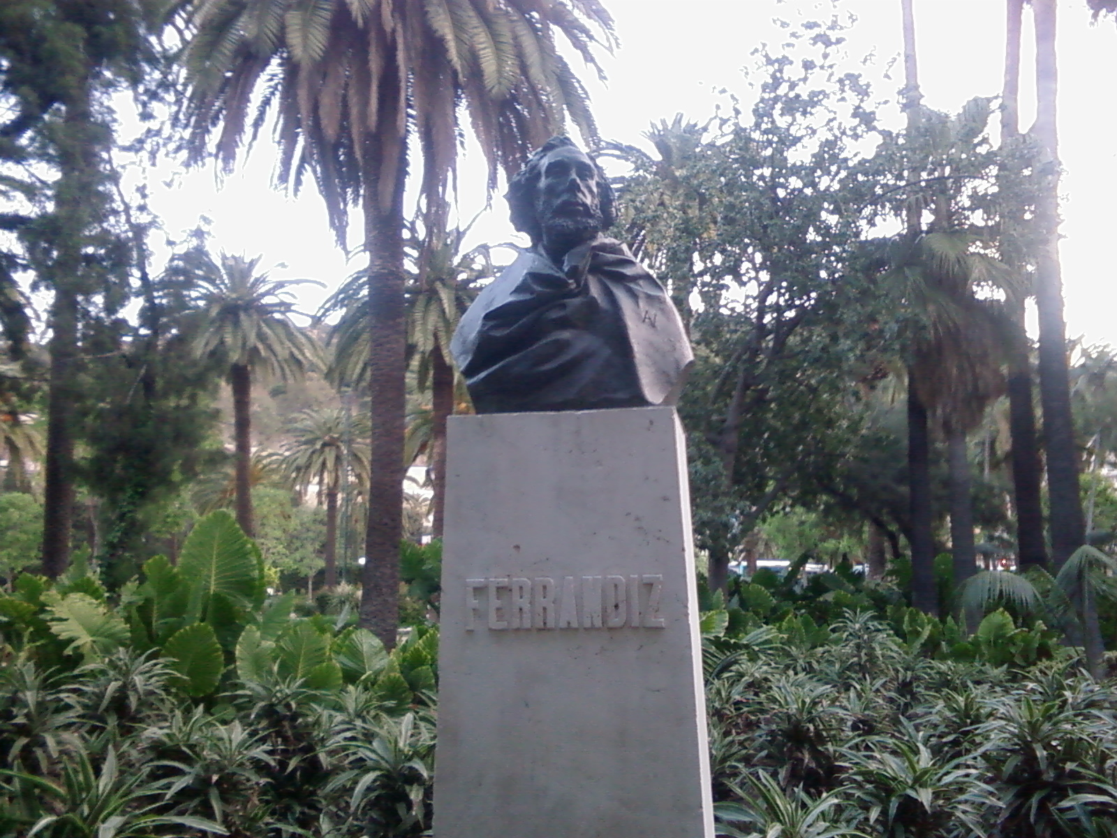 Bernardo Ferrándiz monument at Málaga Park, Spain